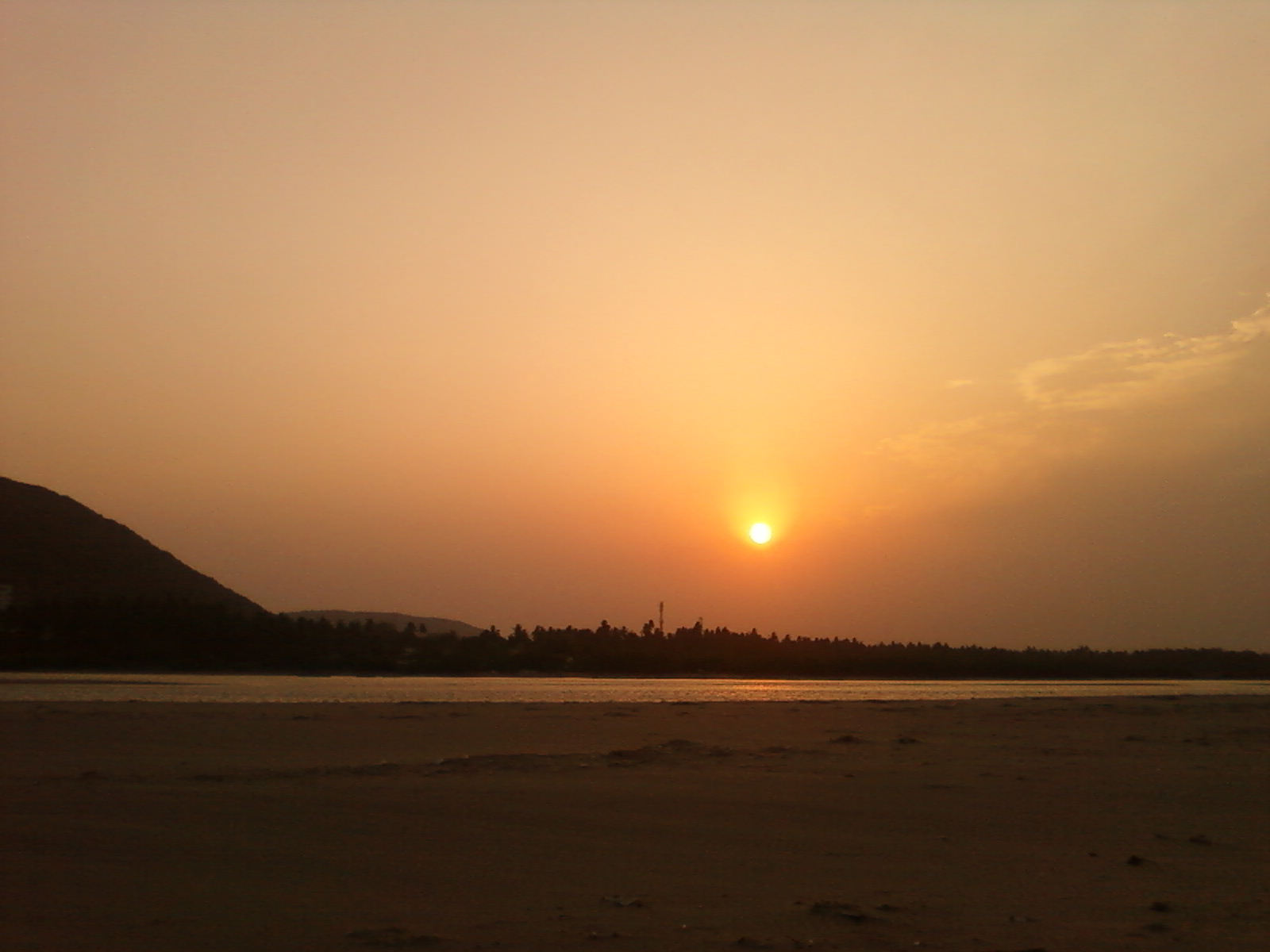 Sunset over Gosthani at Bheemunipatnam in Visakhapatnam district